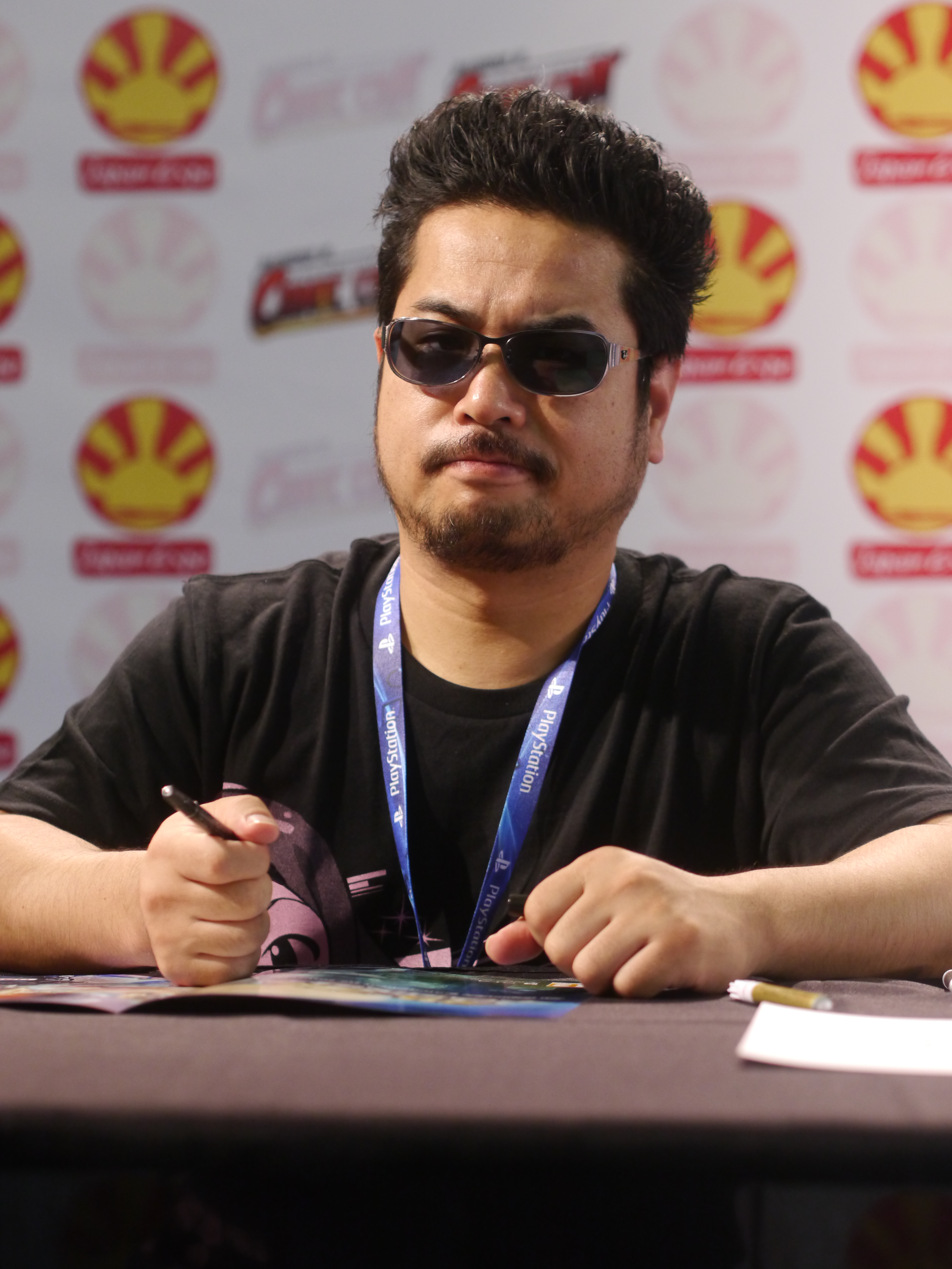 Japan Expo Festival, 14th impact